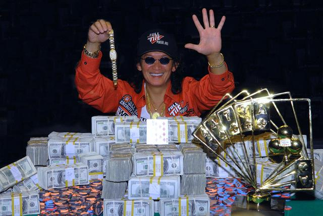 Scotty Nguyen after winning 50K HORSE 2008 World Series of Poker